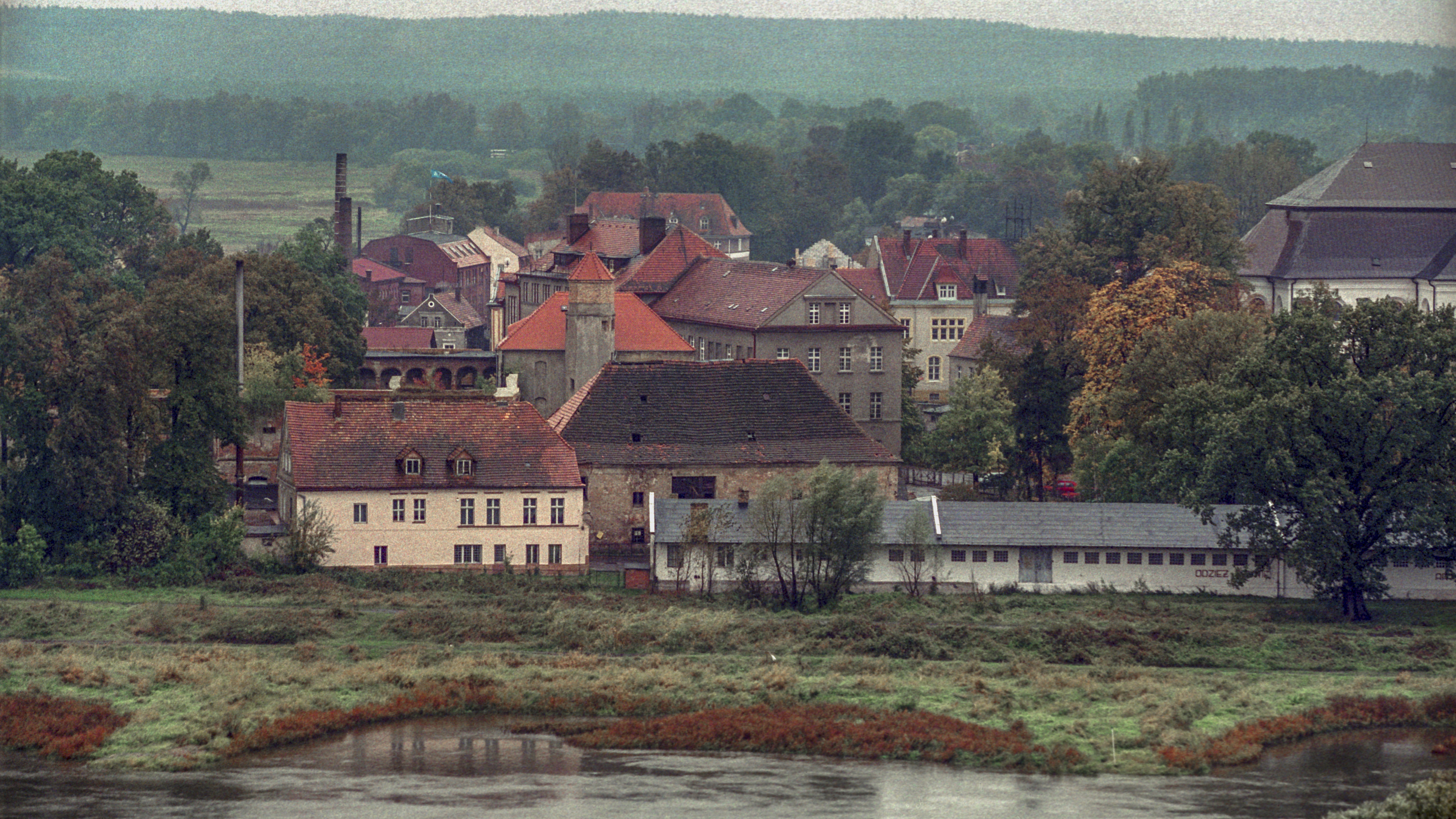 Poland, Krosno Castle